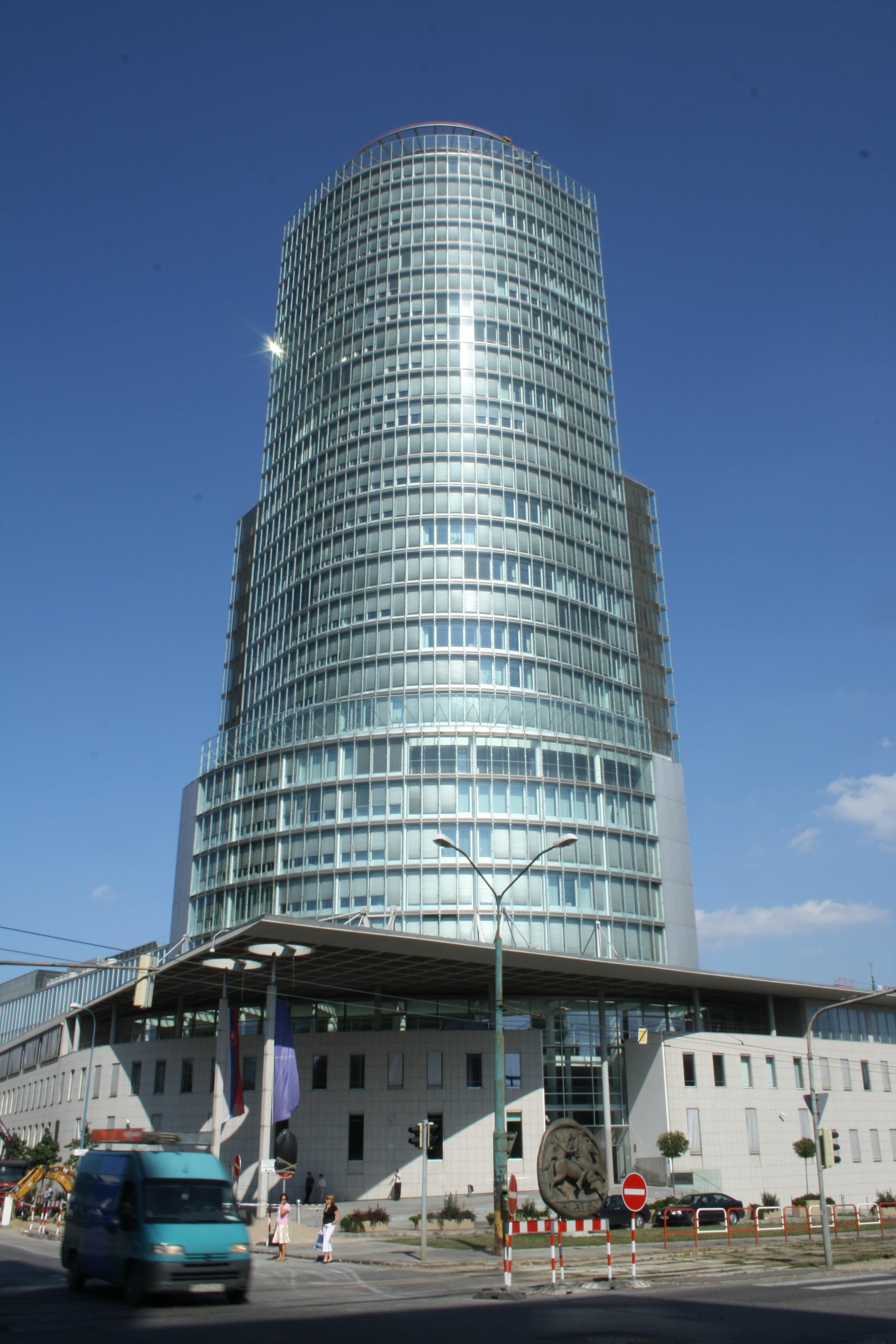 National bank of Slovakia building in Bratislava.